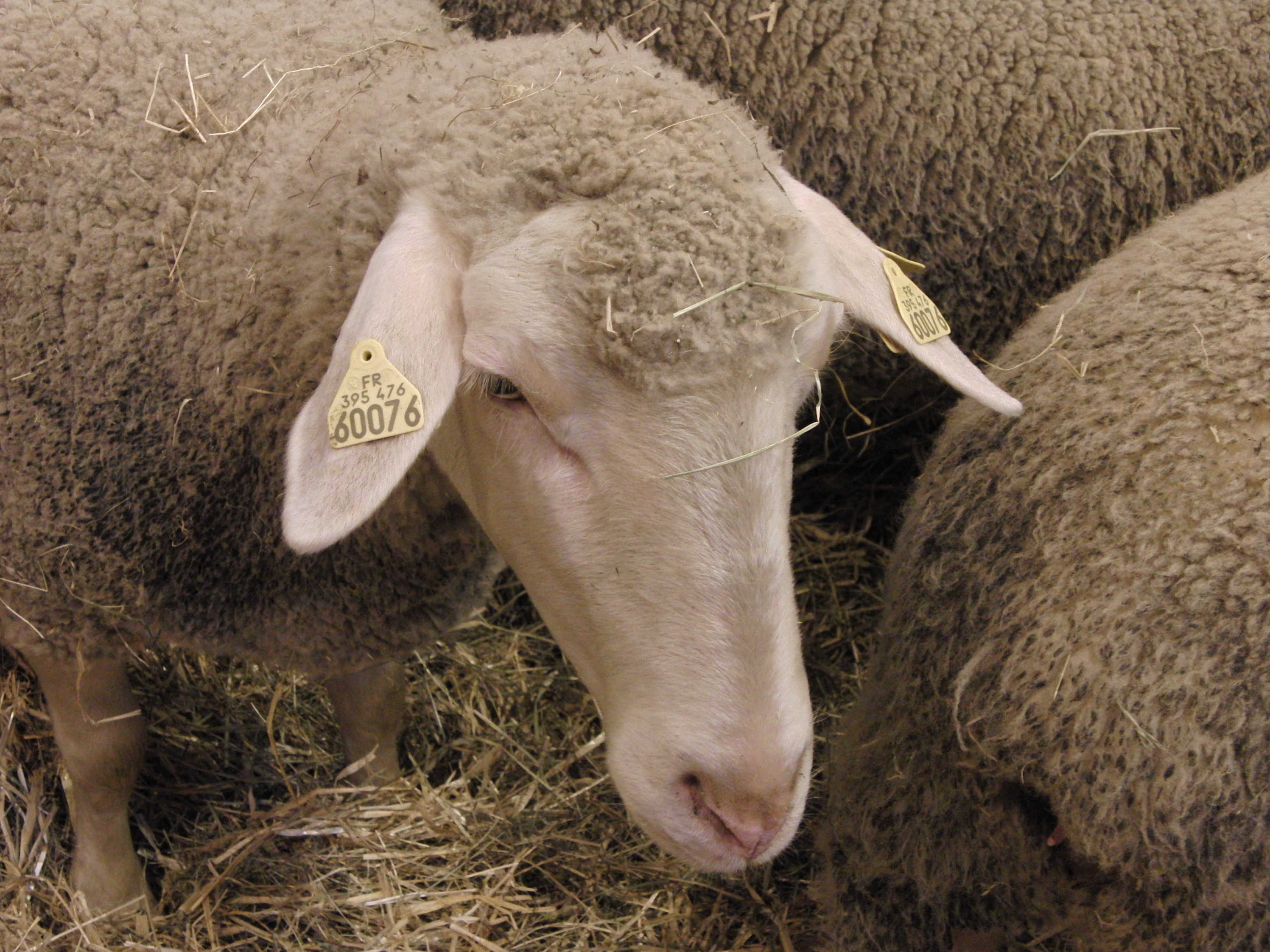 Est à laine Mérinos sheep - Salon international de l'agriculture 2011, Paris, France